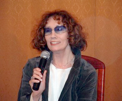 This image has been copied from the source with the permision of webmaster (and with the consent of the director of the service). The permission was granted to Stan Zurek (Zureks) via email from Mirosław Domański - Olga Lipińska